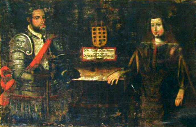 Pedro de Castro "of the War", and Isabel Ponce de León, in a 17th-century painting in the Palace of the Counts of Ficalho, in Serpa, Portugal.